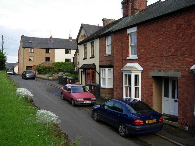 Church Street, Long Buckby. Showing houses on Church Street, opposite the churchyard.